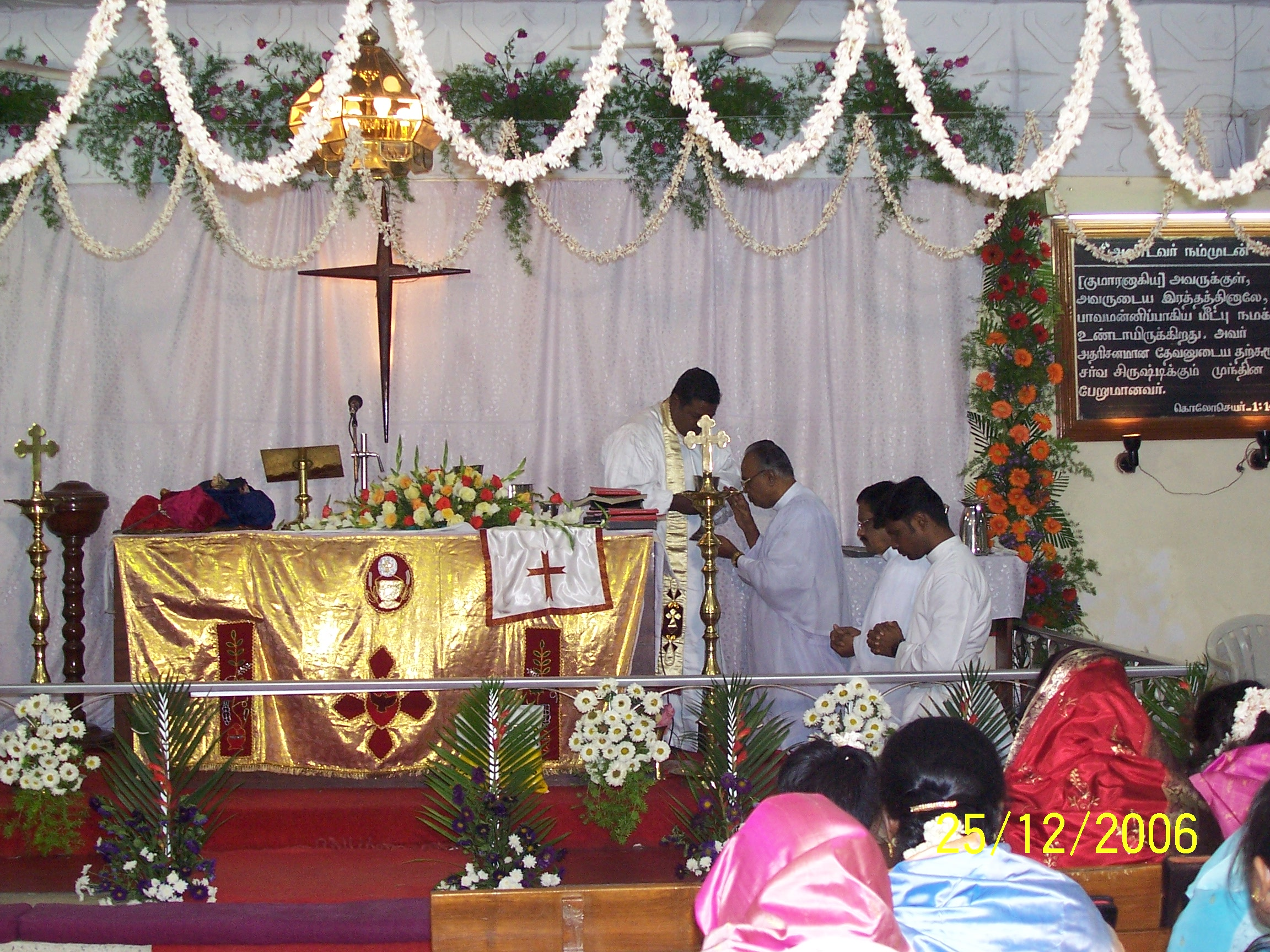 Communion at CSI Church of the Risen Redeemer in Kodambakkam, Chennai